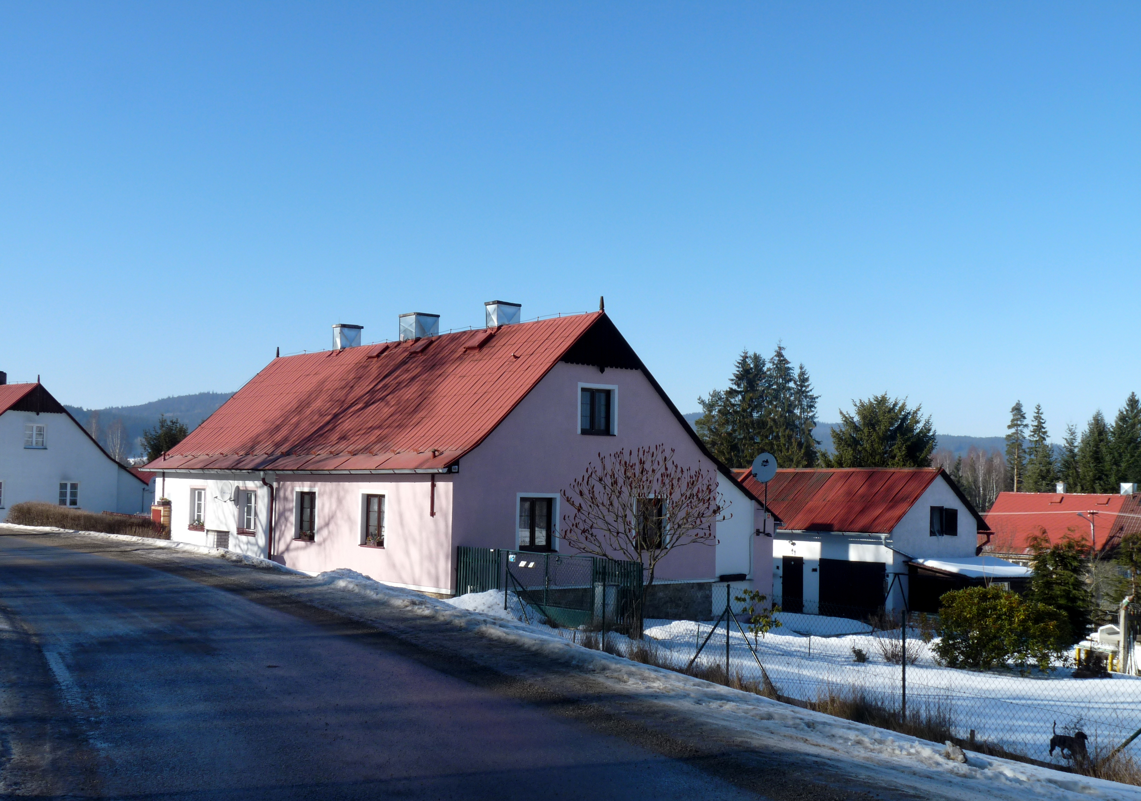 House No 45 in the village of Nové Chalupy, south-east part of the municipality of Nová Pec, Prachatice District, South Bohemian Region, Czech Republic.